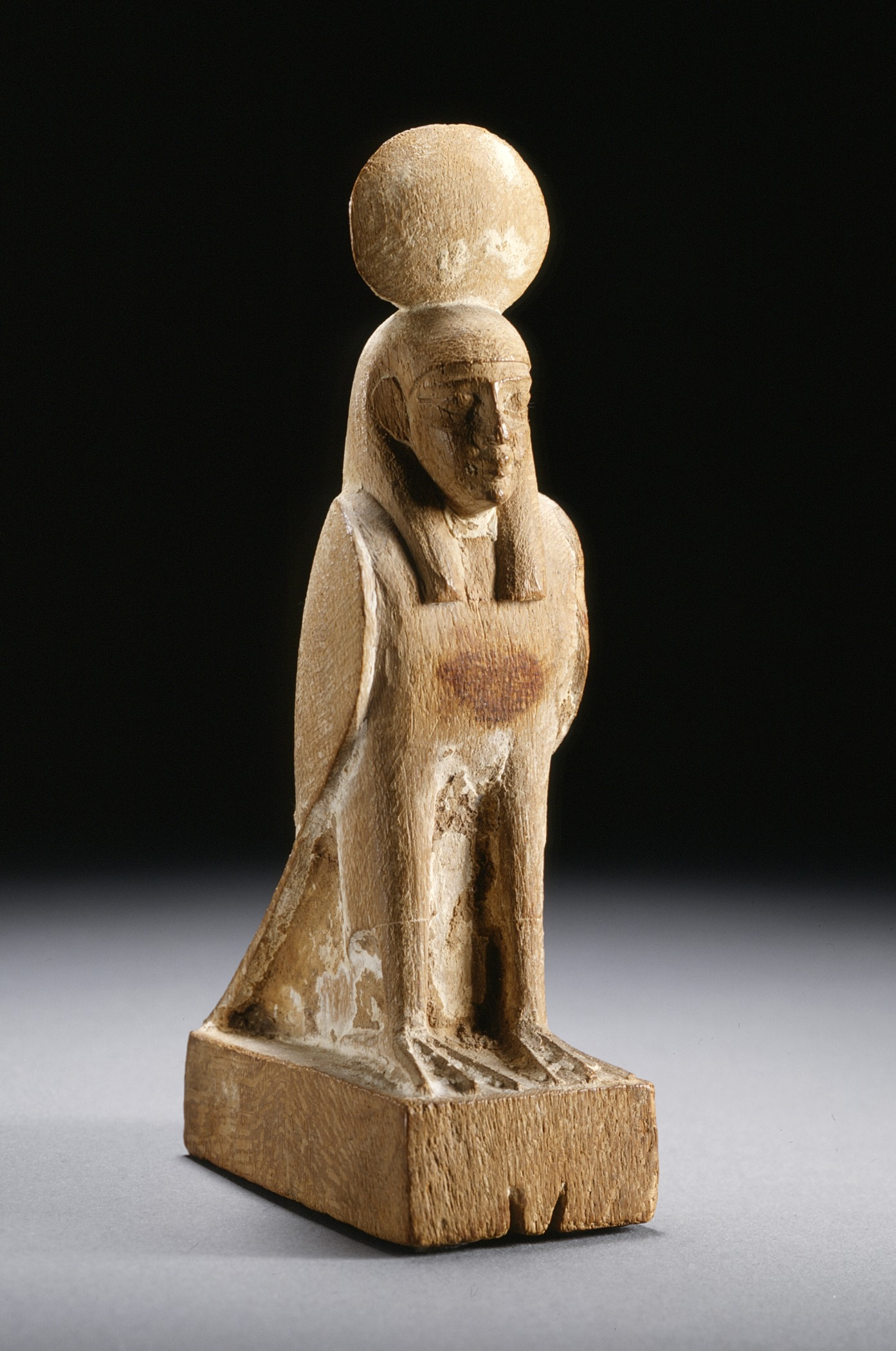 Egypt, probably New Kingdom (1550 - 1070 BCE) Sculpture Wood with traces of gesso and paint William Randolph Hearst Collection (51.15.9) Egyptian Art